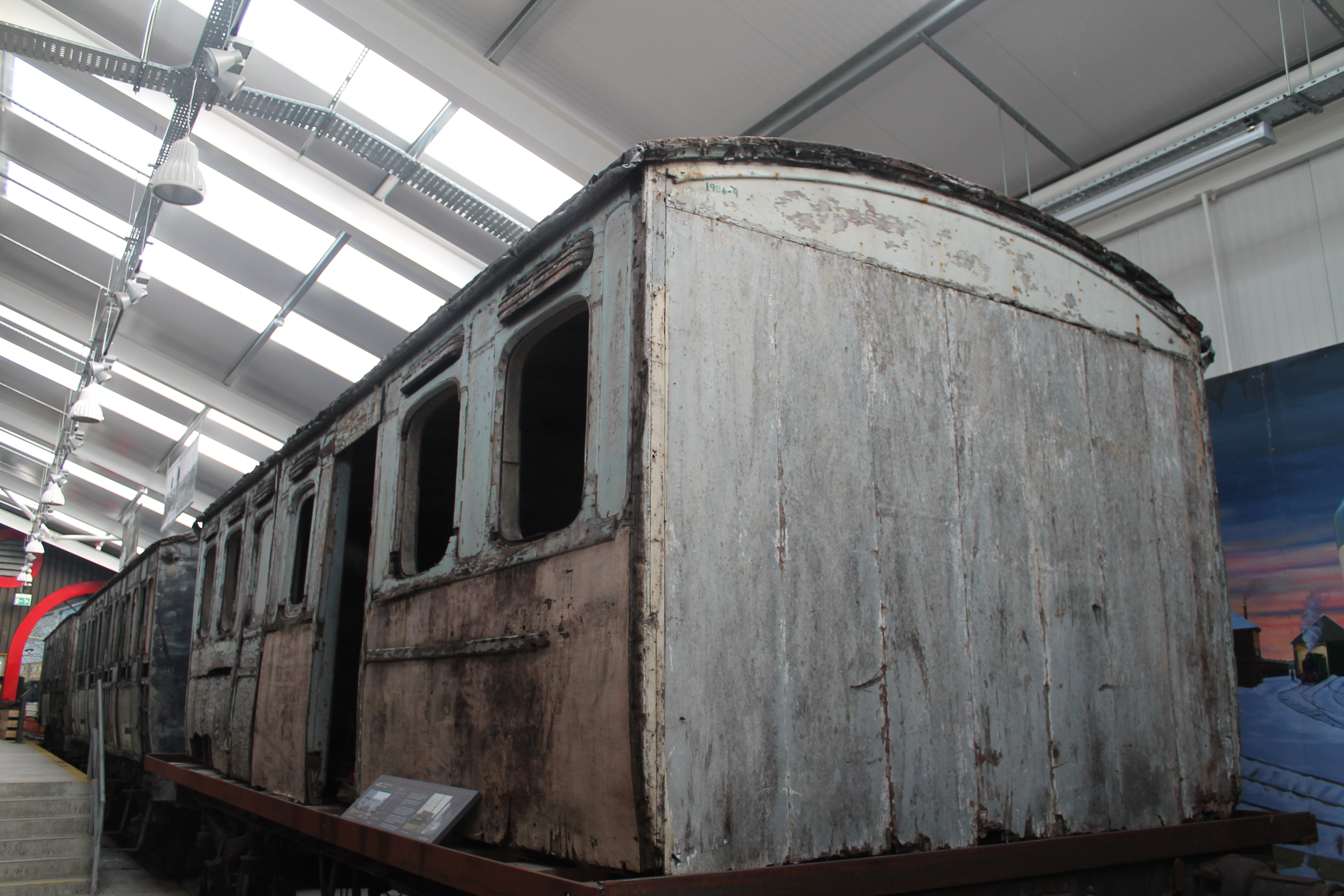 UR No. 33 at Downpatrick- The only surviving vehicle of the Ulster Railway.